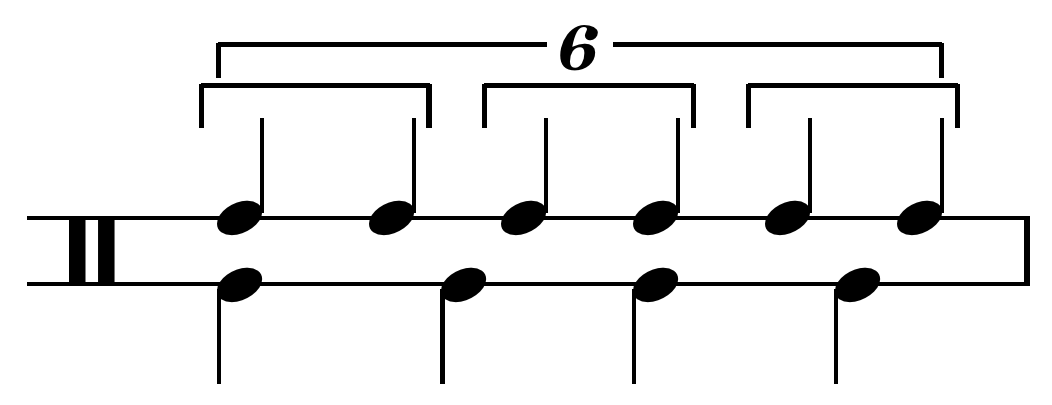 "True sextuplet": in order to contrast with the above "false sextuplet", the 1st, 3rd, and 5th notes of a sextuplet must be stressed rather than the 1st and 4th (Baker, Slonimsky, and Kuhn 1995, 208). Created by Hyacinth (talk) 11:09, 1 March 2010 using Sibelius 5. Contrast with: File:Sextuplet rhythm.png